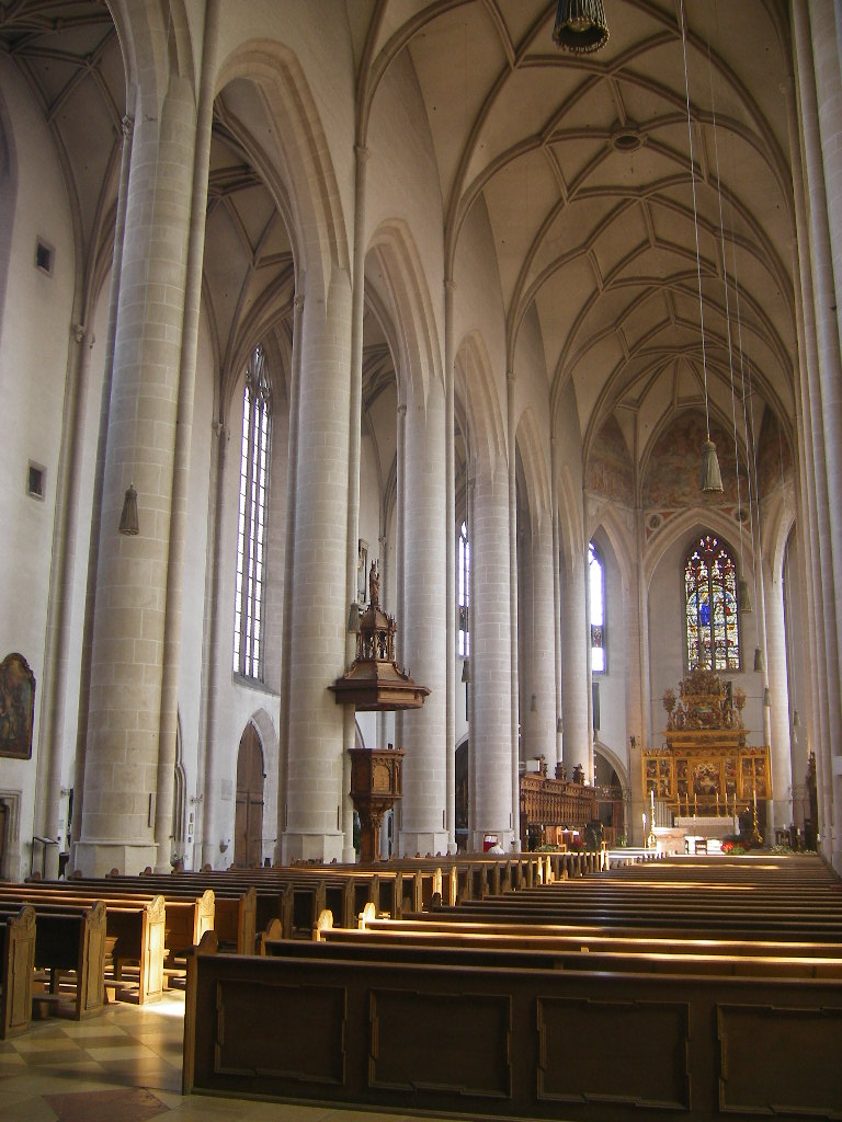 Ingolstadt Cathedral